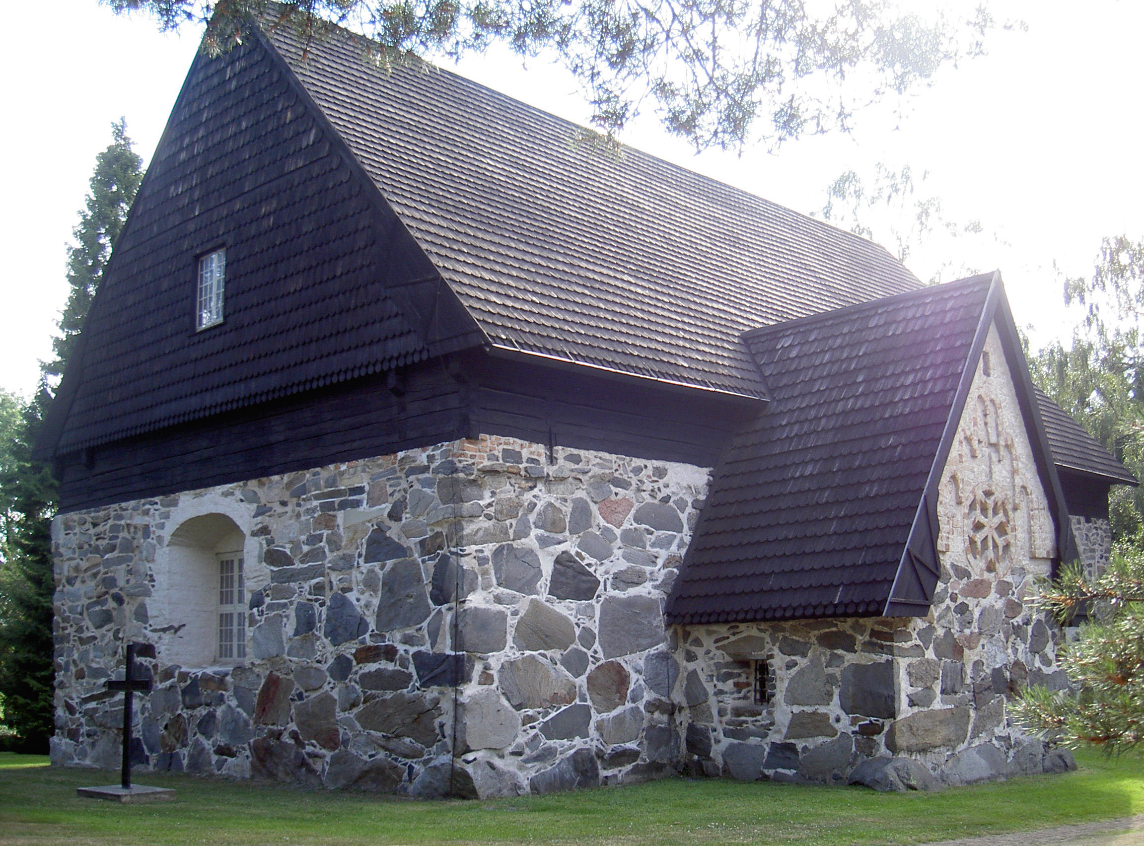 Messukylä Old Church (Messukylän vanha kirkko) in Tampere, Finland.